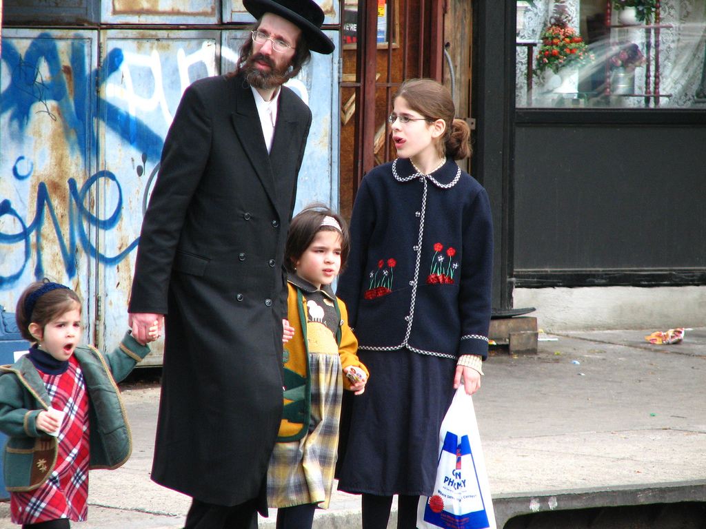 Satmar community Williamsburg brooklyn new york